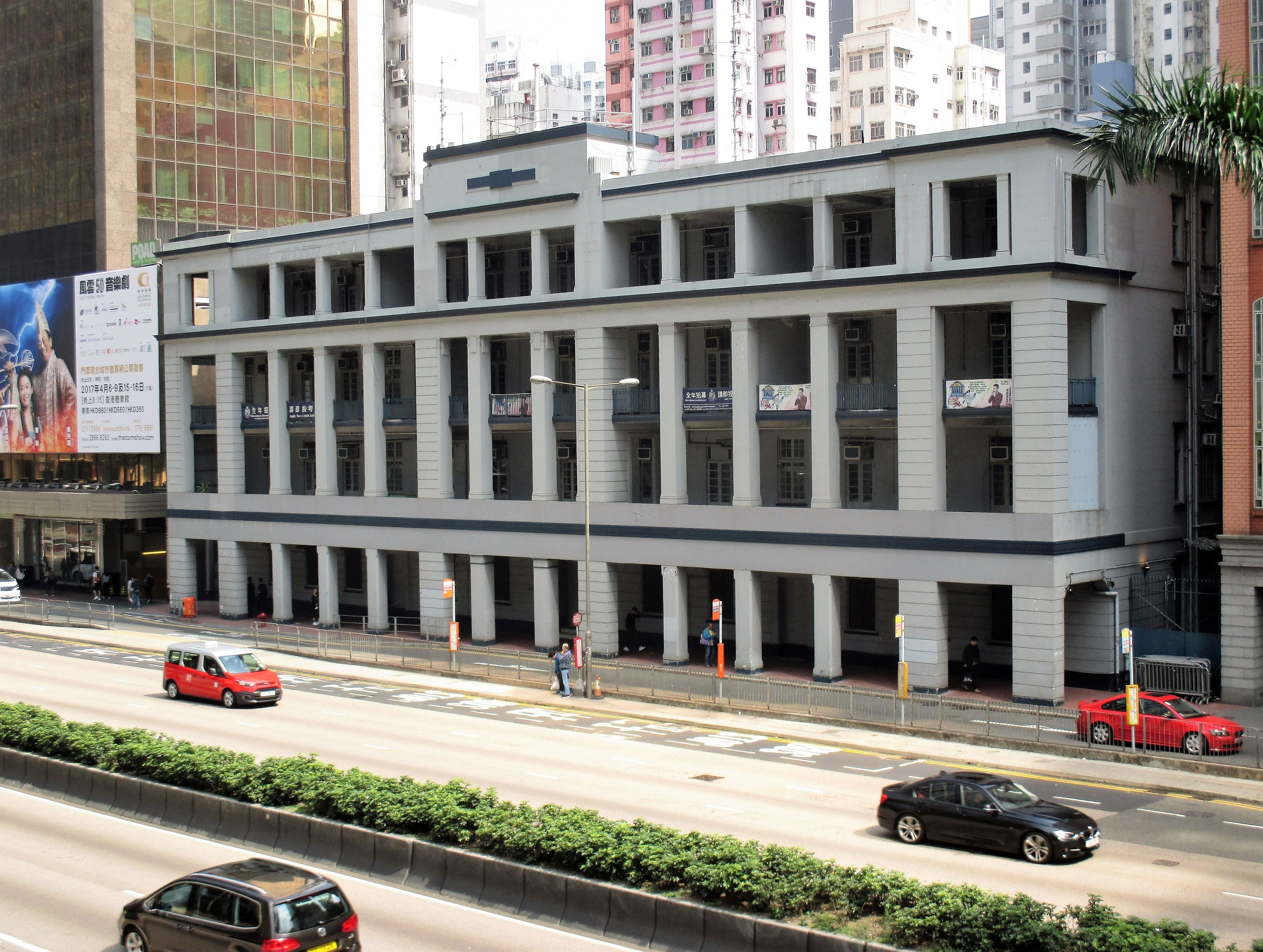 Category:Old Wan Chai Police Station